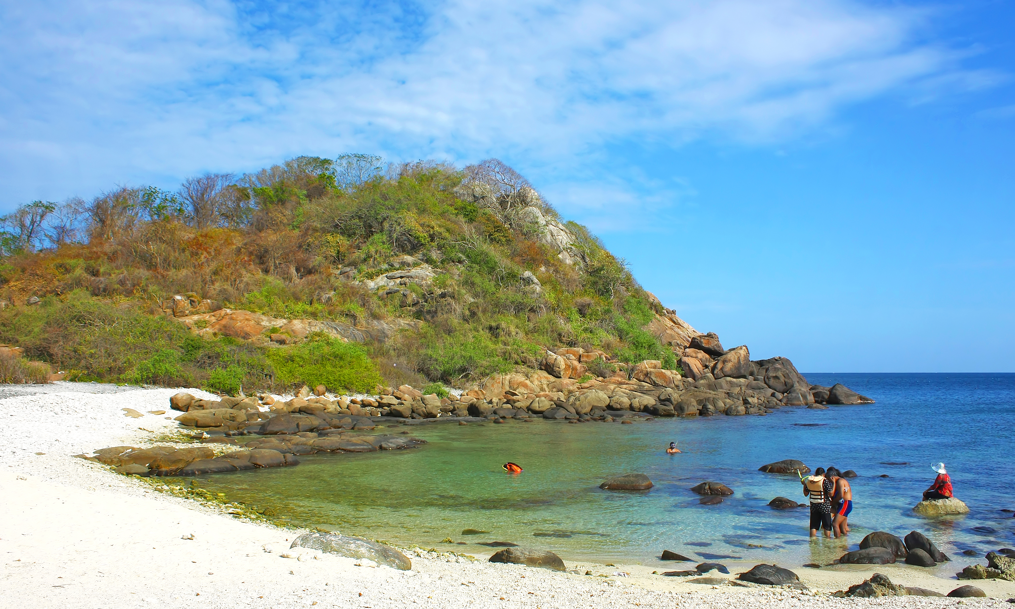 Pigeon Island National Park, main rock in northwest